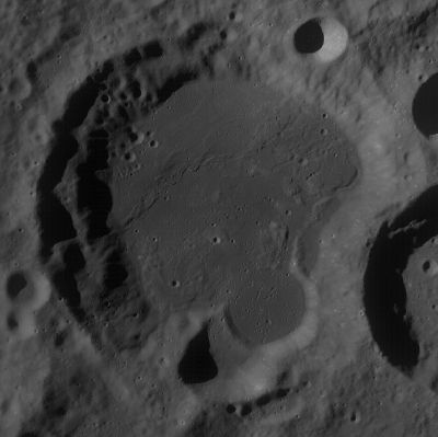 Left: LROC image WAC No. M118166068ME. Calibrated by LROC_WAC_Previewer.